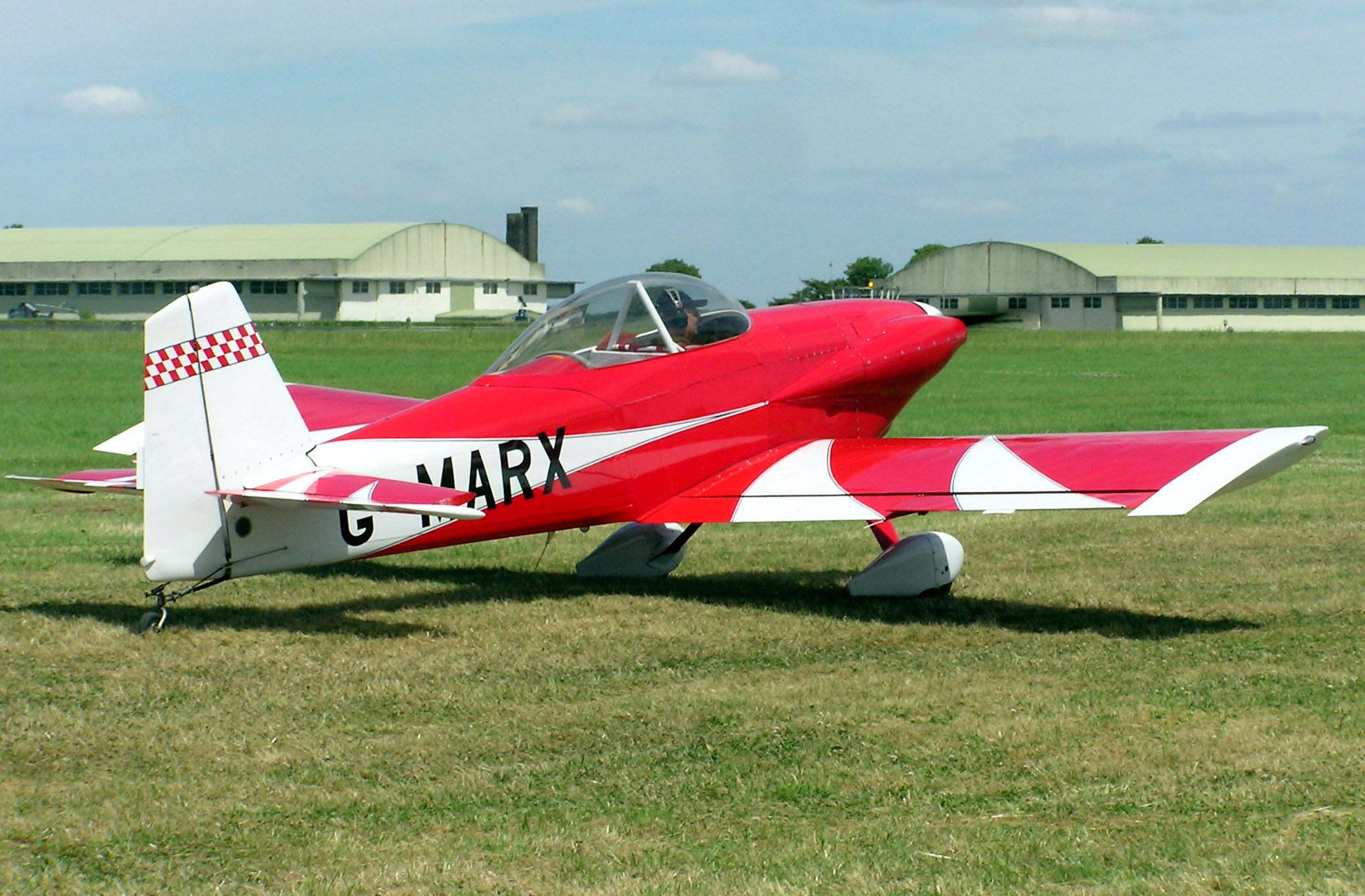 Vans RV-4 (UK registration G-MARX) at Kemble Airfield, Gloucestershire, England. Photographed by Adrian Pingstone in July 2005 and released to the public domain.